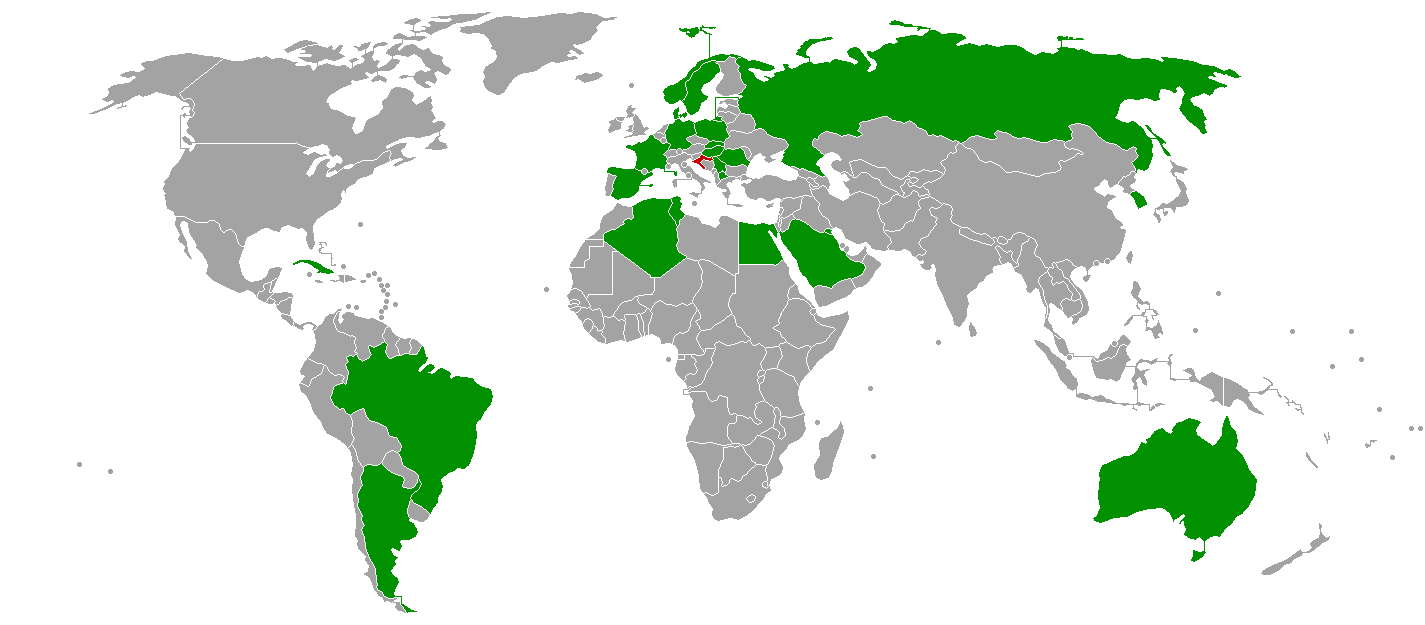 Made from BlankMap-World-v5.png.